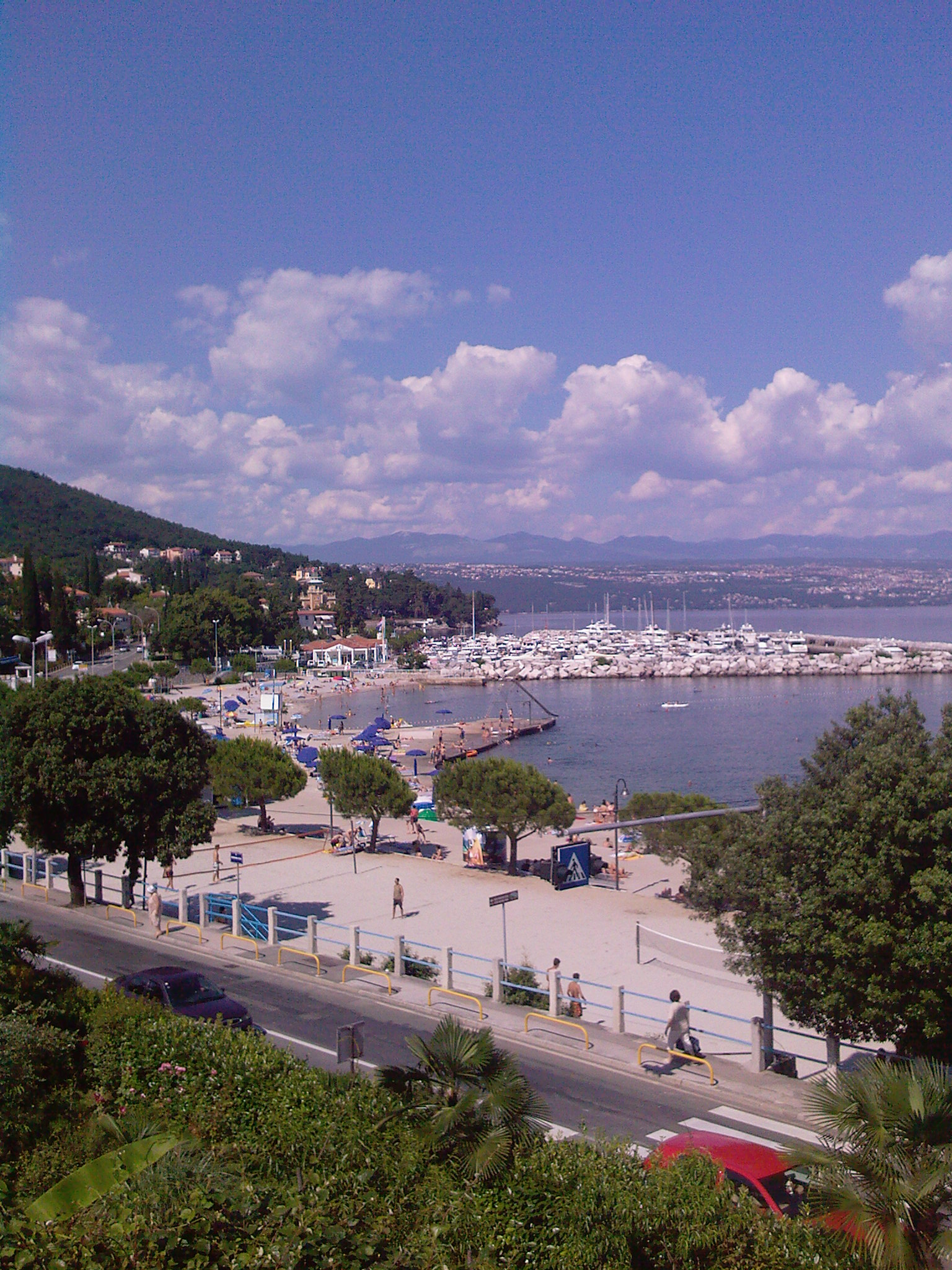 A beautiful day in Icici